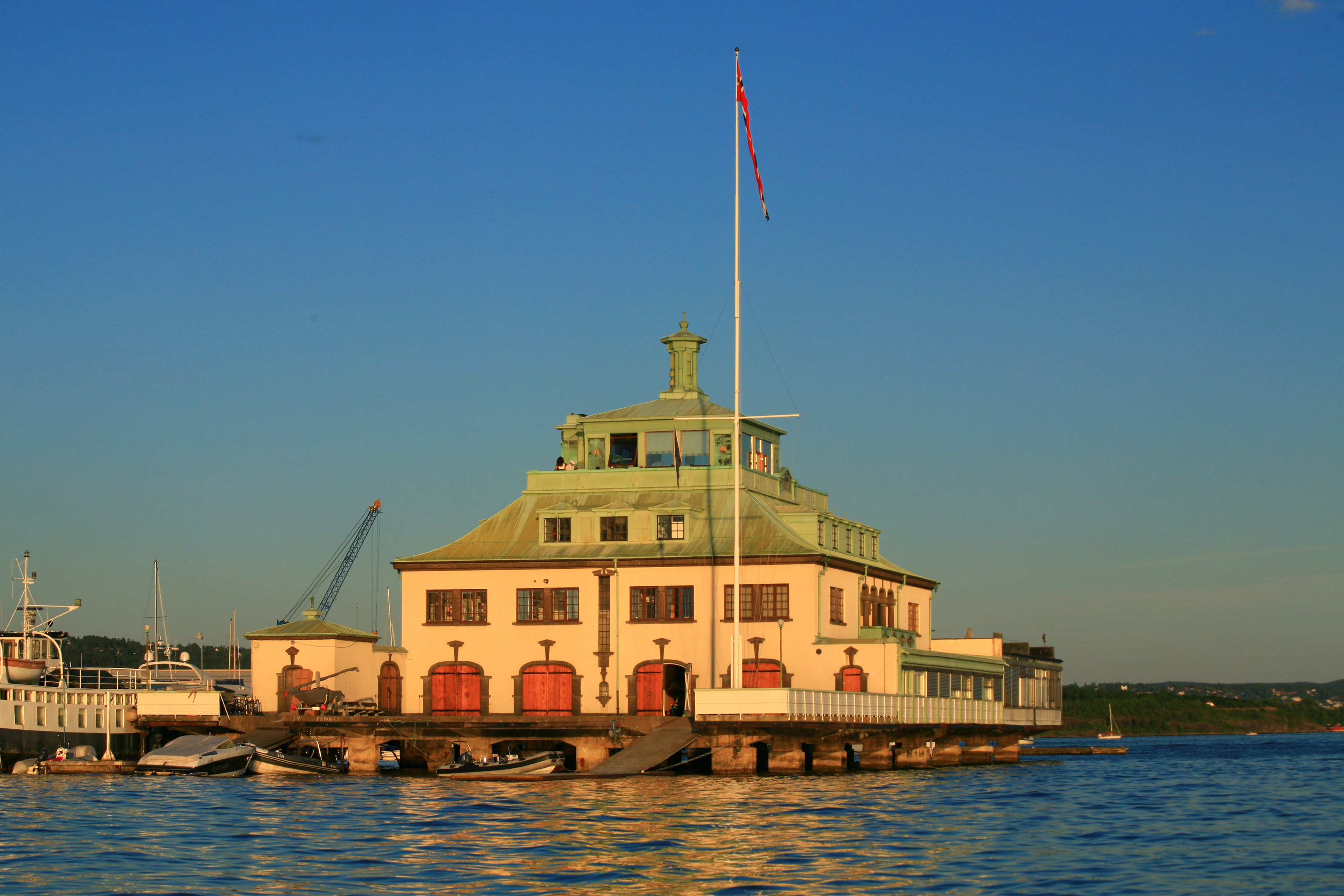 Club house of Christiania Roklub, also known under the name 'Kongen*